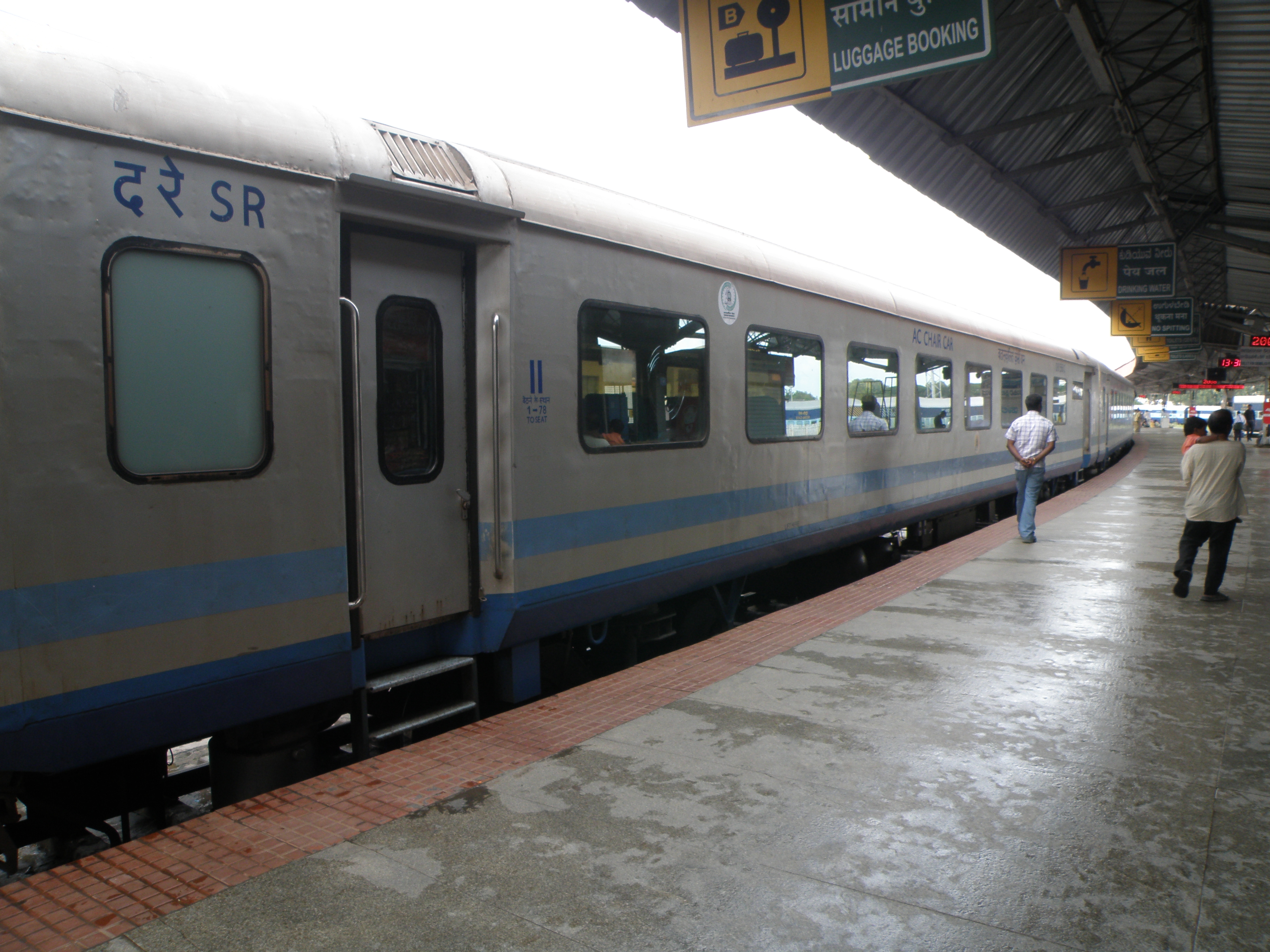 LHB coaches of the Mysore Shatabdi Express at Mysore Railway Station.